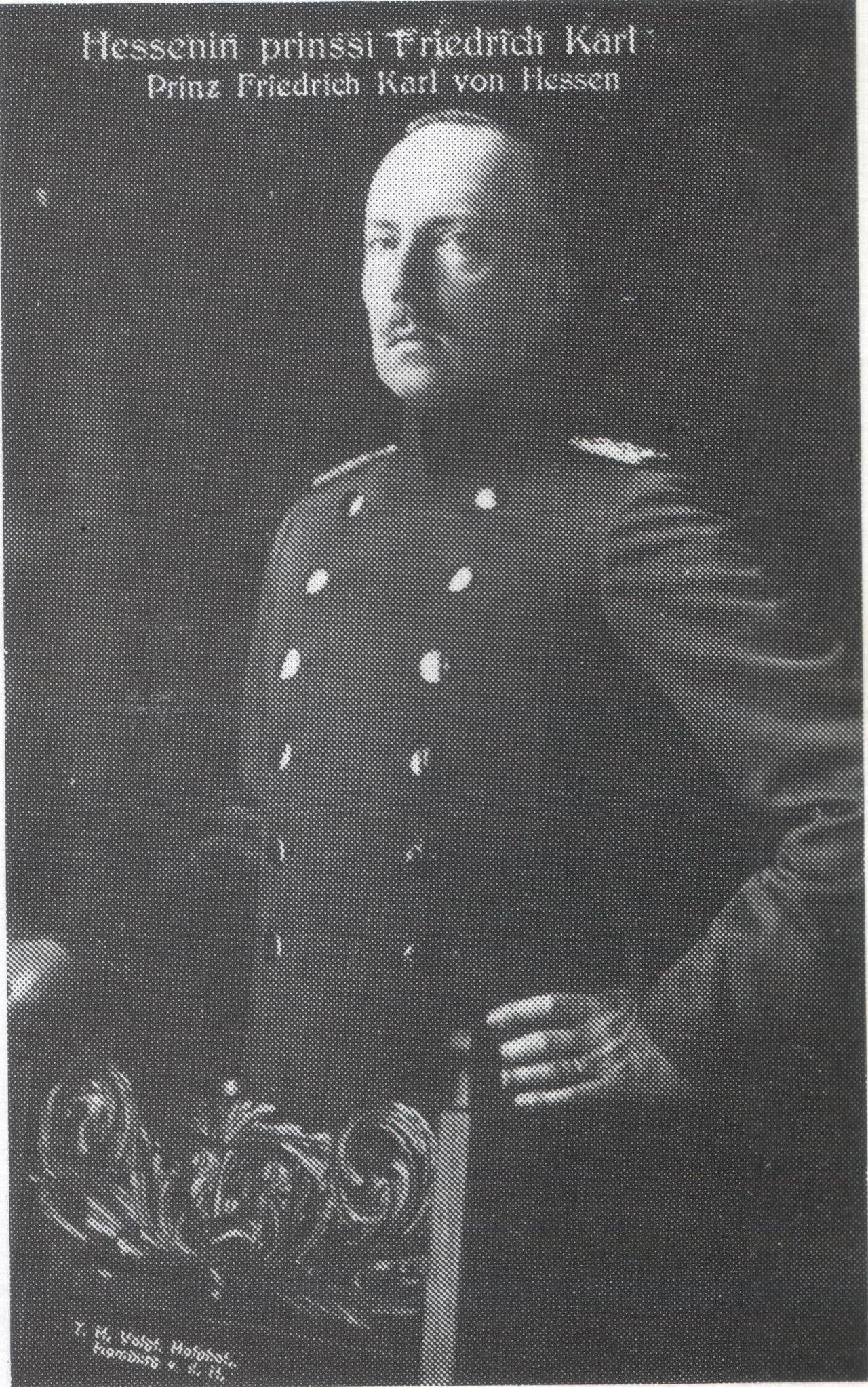 A picture of the future king which was spread in Finland in 1918.